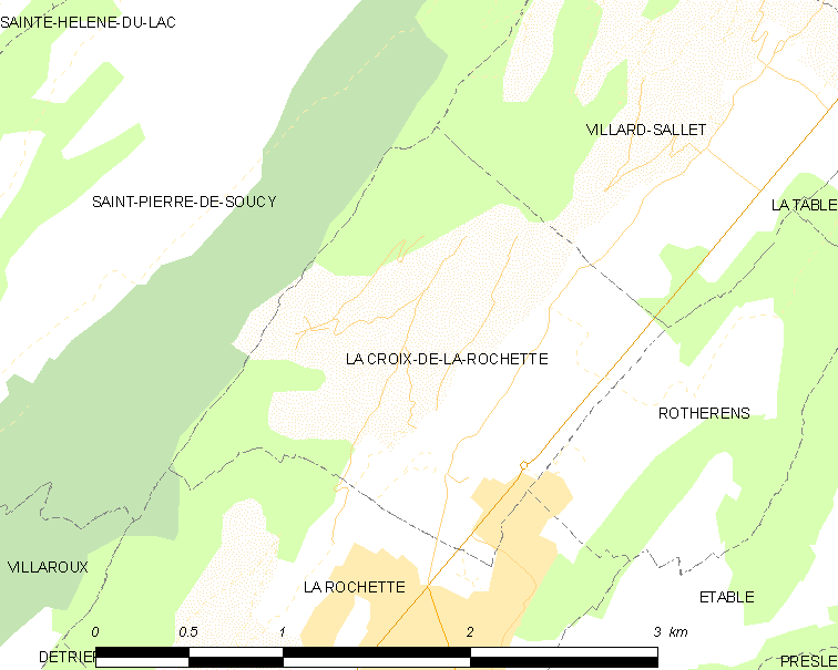 Map of French municipality